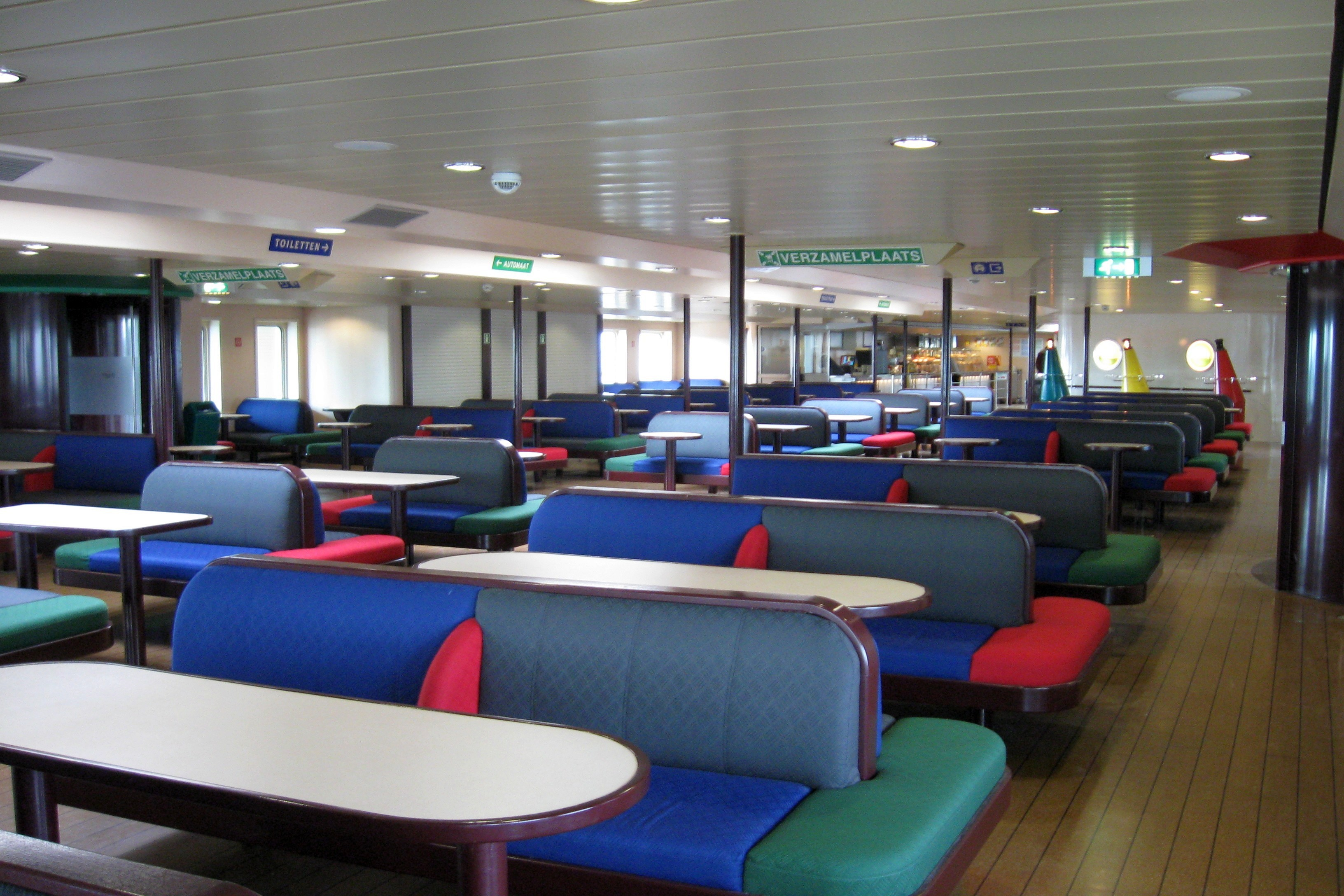 interior of the MS Dokter Wagemaker, ferry Den Helder - Texel/The Netherlands